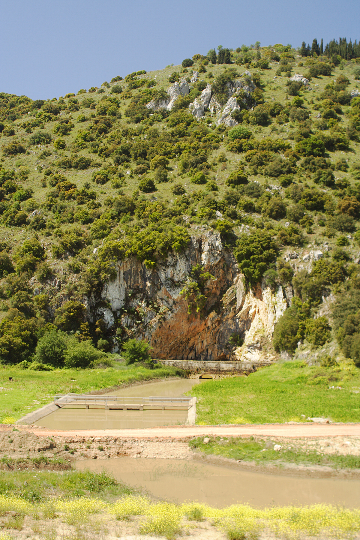 One of 7 Ponors of the southern part of the very large Tripoli-Plateau (polje). The plateau has no natural water outlet, which is a relatively frequent phenomenon in the Karstbasins of Arcadia (island of the Peloponnese in Greece). When precipitation of winters was exceptionally rich, the polje became flooded, until the second half of the 20th century even temporary lakes were possible. In such a case ponors became vital. See also the photo: Image:katavothra_Taka-plain_Tripoli-Polje_Peloponnese_Greece.jpg